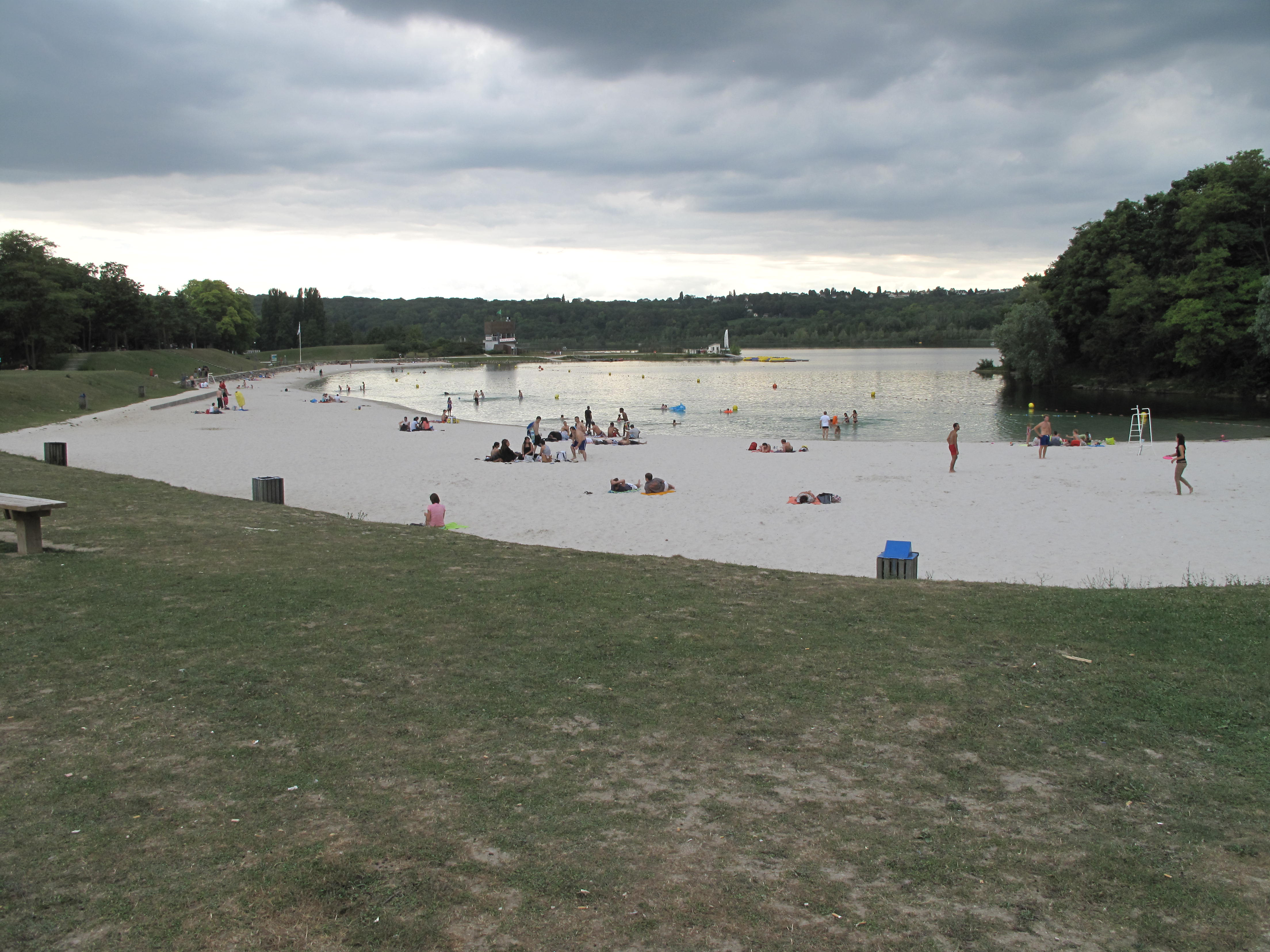 Beach of the leisure center of Jablines, Seine-et-Marne, France.